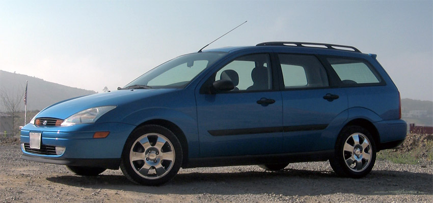 2001 Ford Focus Wagon Street Edition.